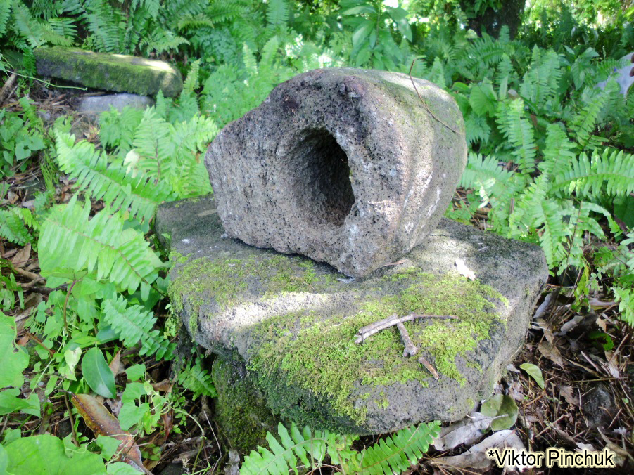 Samoa